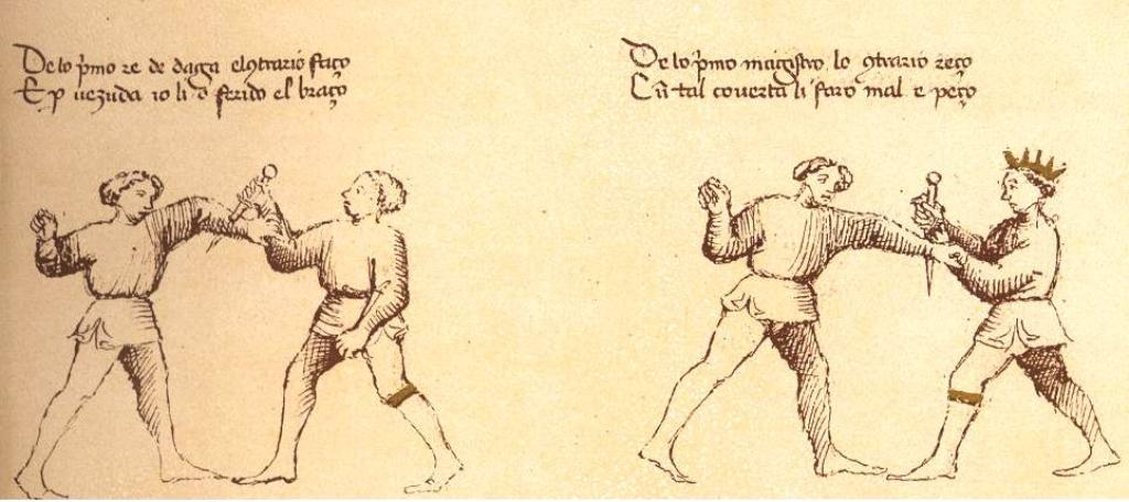 Image extrated of the Flos Duellatorum, a historical European martial arts training manual.